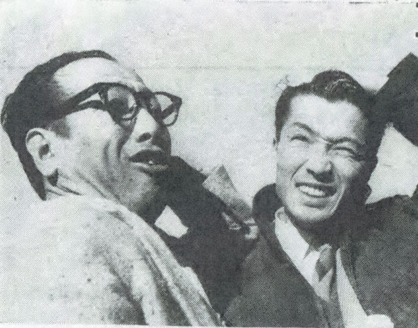 Columbia Top(left) and Light(light)